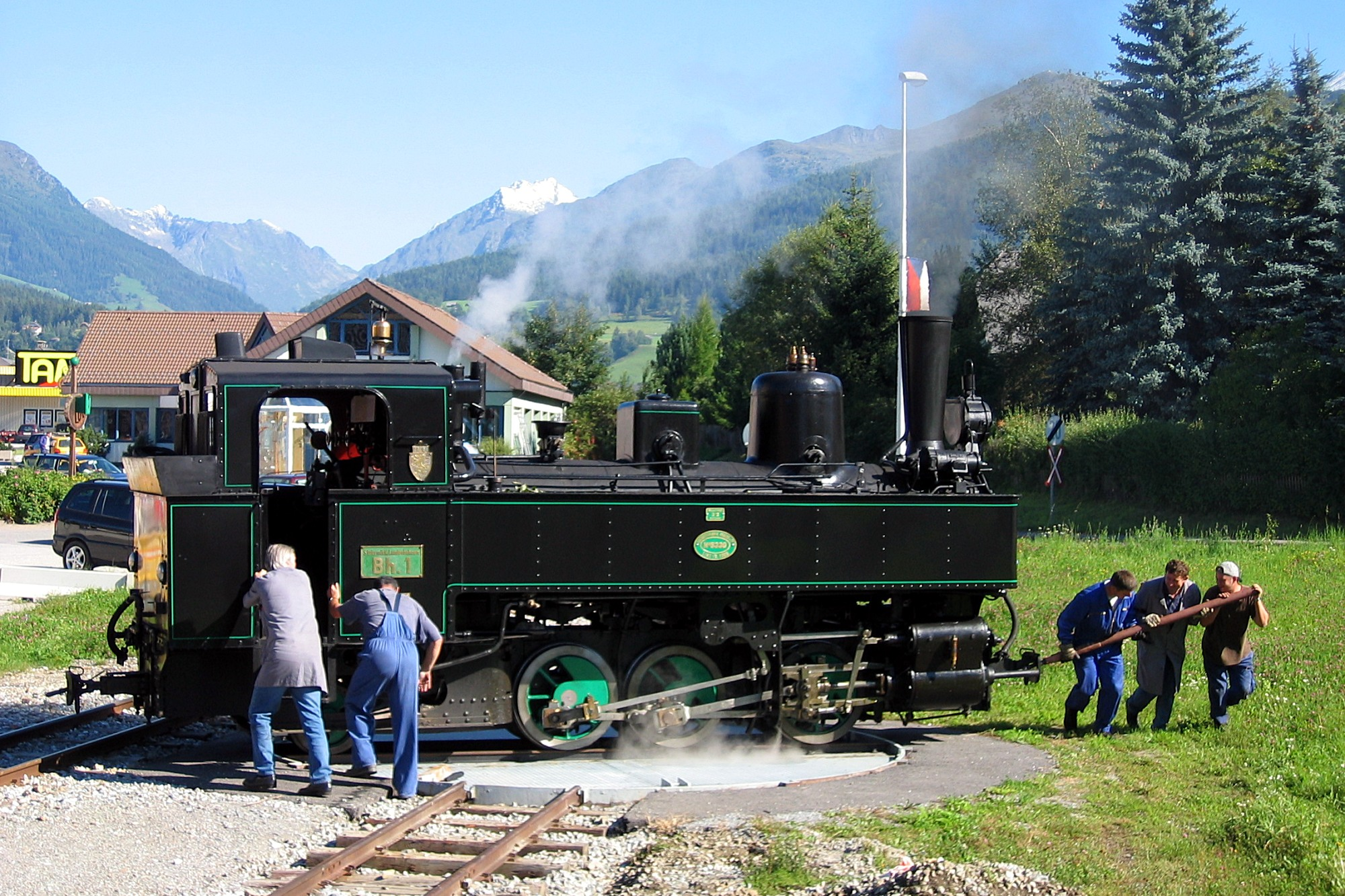 0-6-2 narrow gauge engine Bh.1 on turntable in Tamsweg station